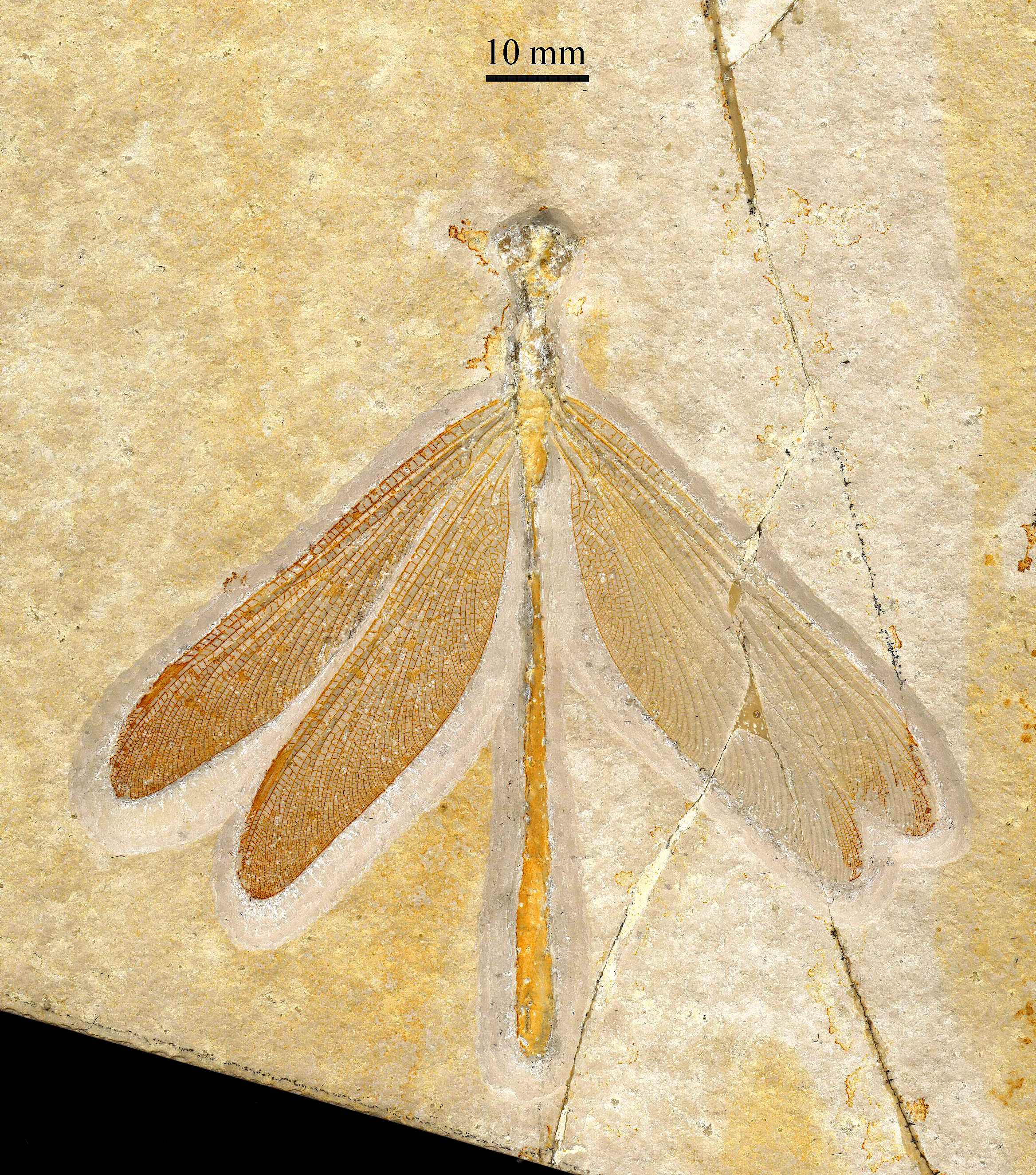 Stenophlebia latreillei (Odonata: Stenophlebiidae), Upper Jurassic, Solnhofen Plattenkalk, specimen 0004 in private collection Günther Koschny (Bad Soden, Germany)